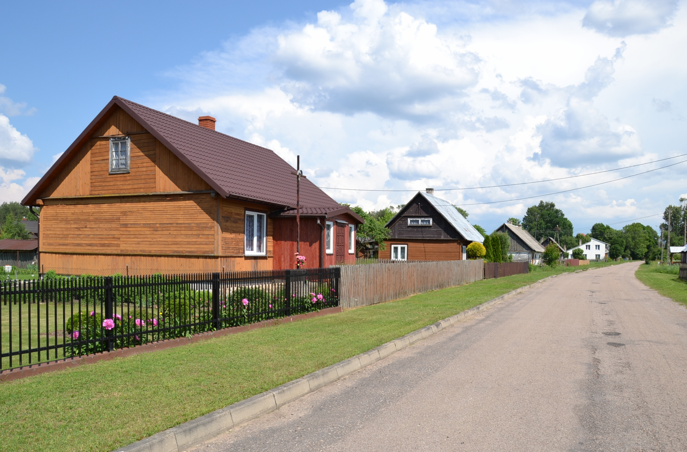 Rudawka (Rudauka), Poland - main street